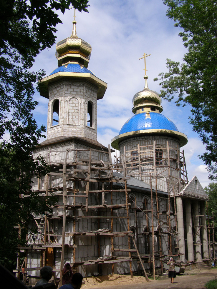 Church in Holy place (Lugansk region, Ukraine)